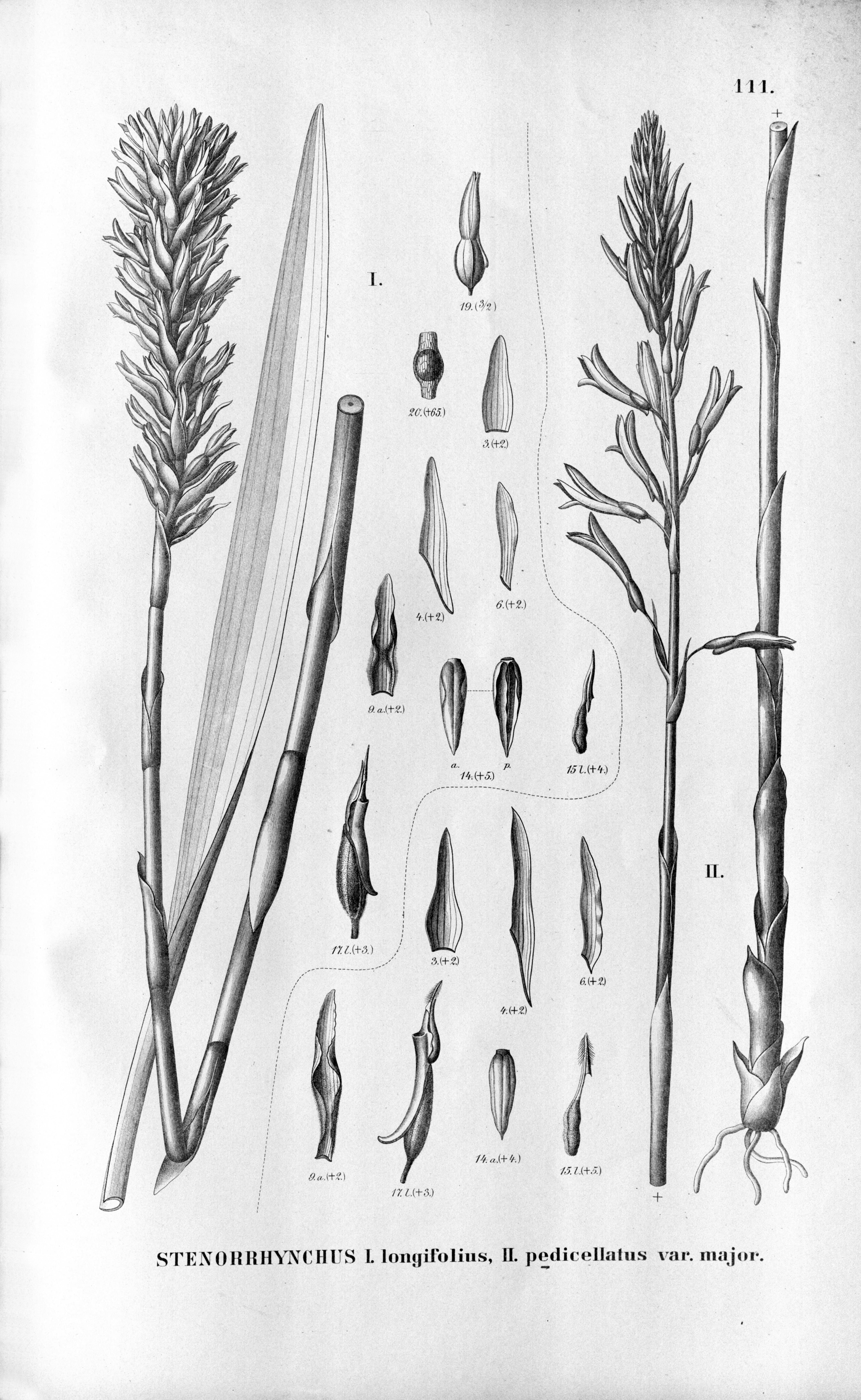 Illustration of I. Sacoila hassleri (as syn. Stenorrhynchus longifolius, Kew Gardens 'World Checklist' link : Stenorrhynchos longifolium) II. Sacoila pedicellata (as syn. Stenorrhynchus pedicellatus var. major, Kew Gardens 'World Checklist' link : Stenorrhynchos pedicellatum var. major)